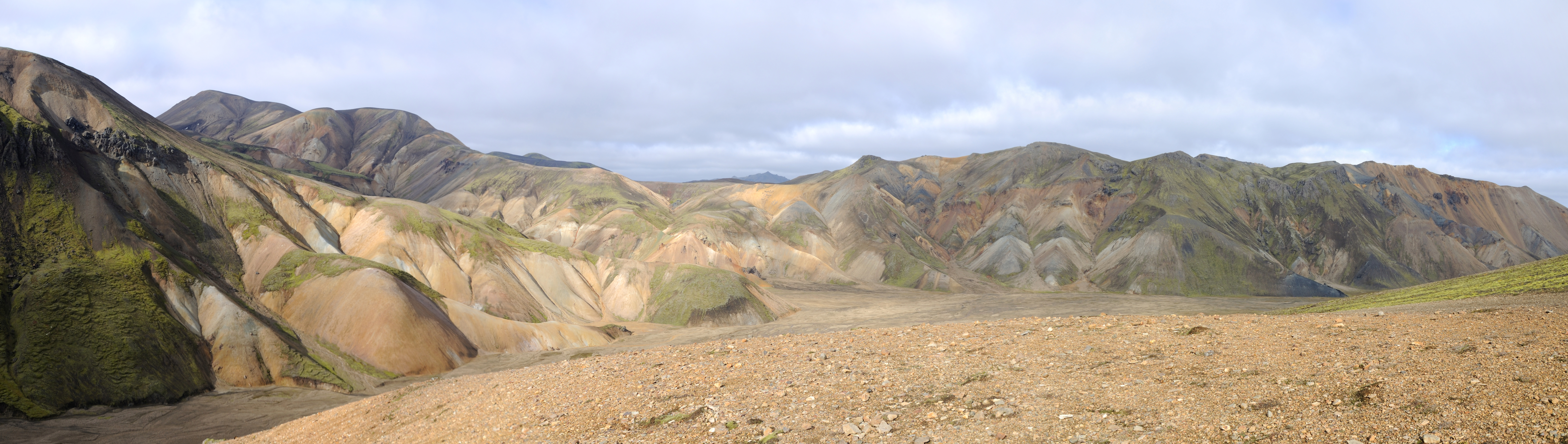 Iceland , impressions from Landmannalaugar